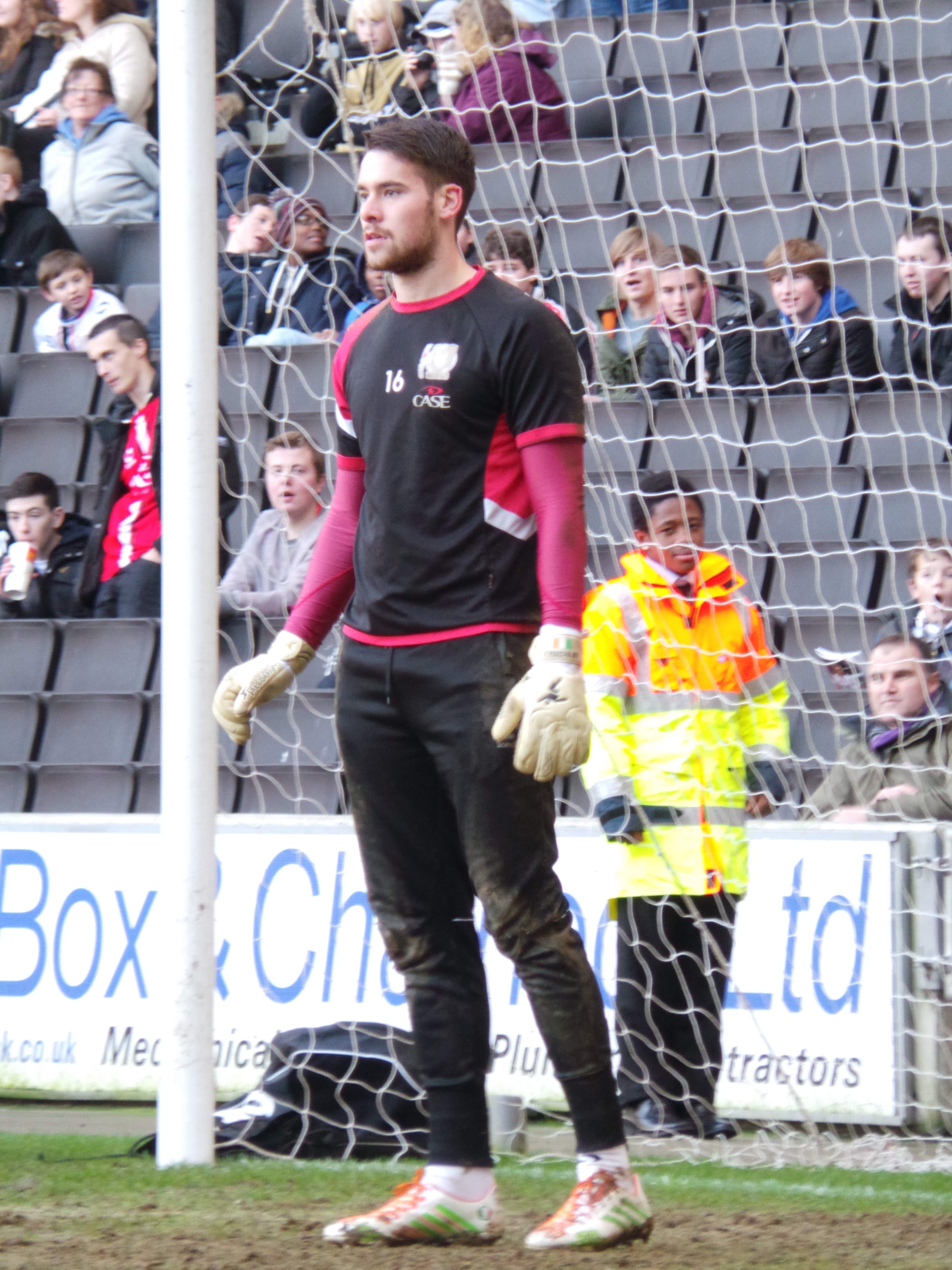 Ian McLoughlin